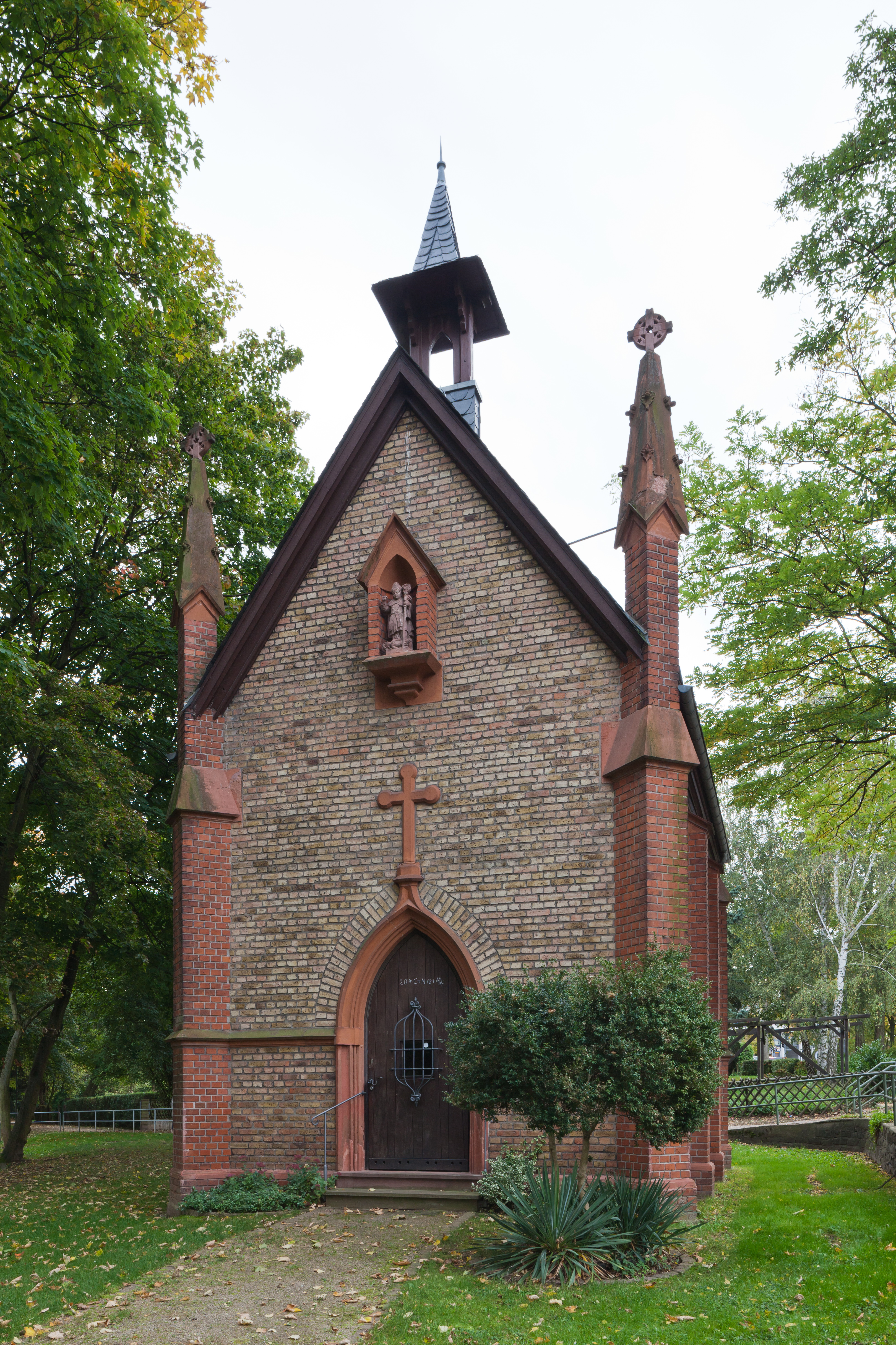 Frankfurt on the Main-Sossenheim: Nothelferkapelle (Helper in time of need Chapel) as seen from the northeast